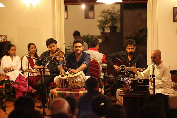 Classical Show at Amaradeva Foundation